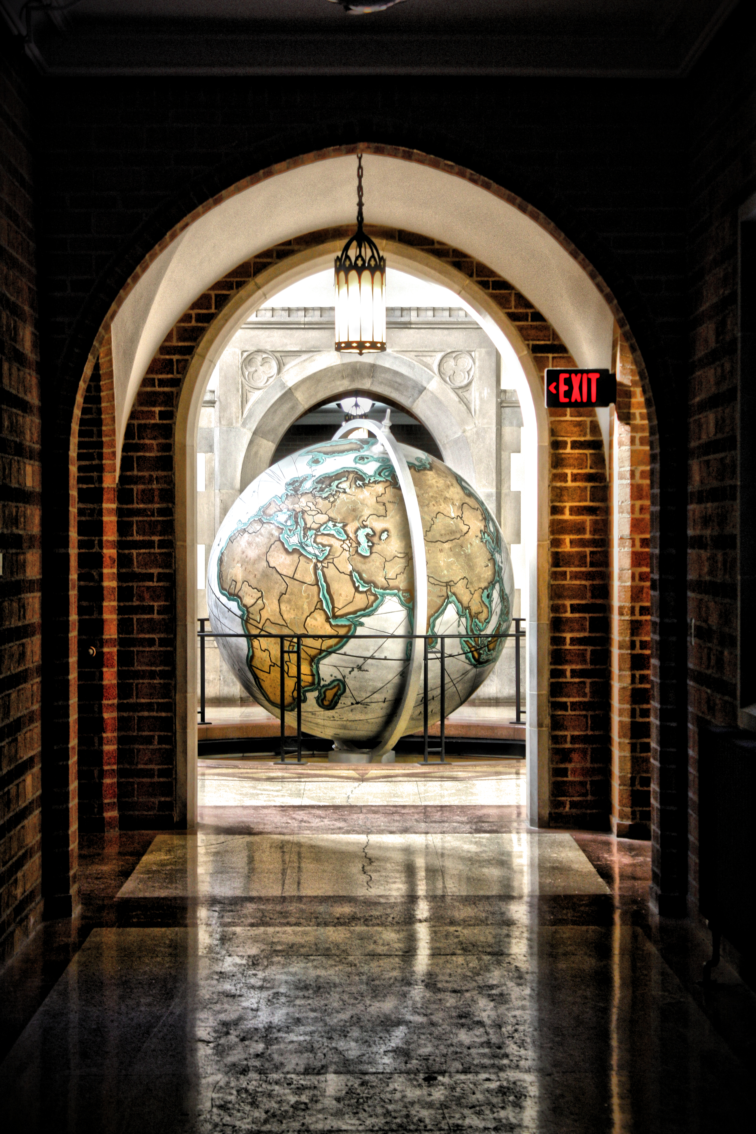 Detail of interior of Hurley Hall.